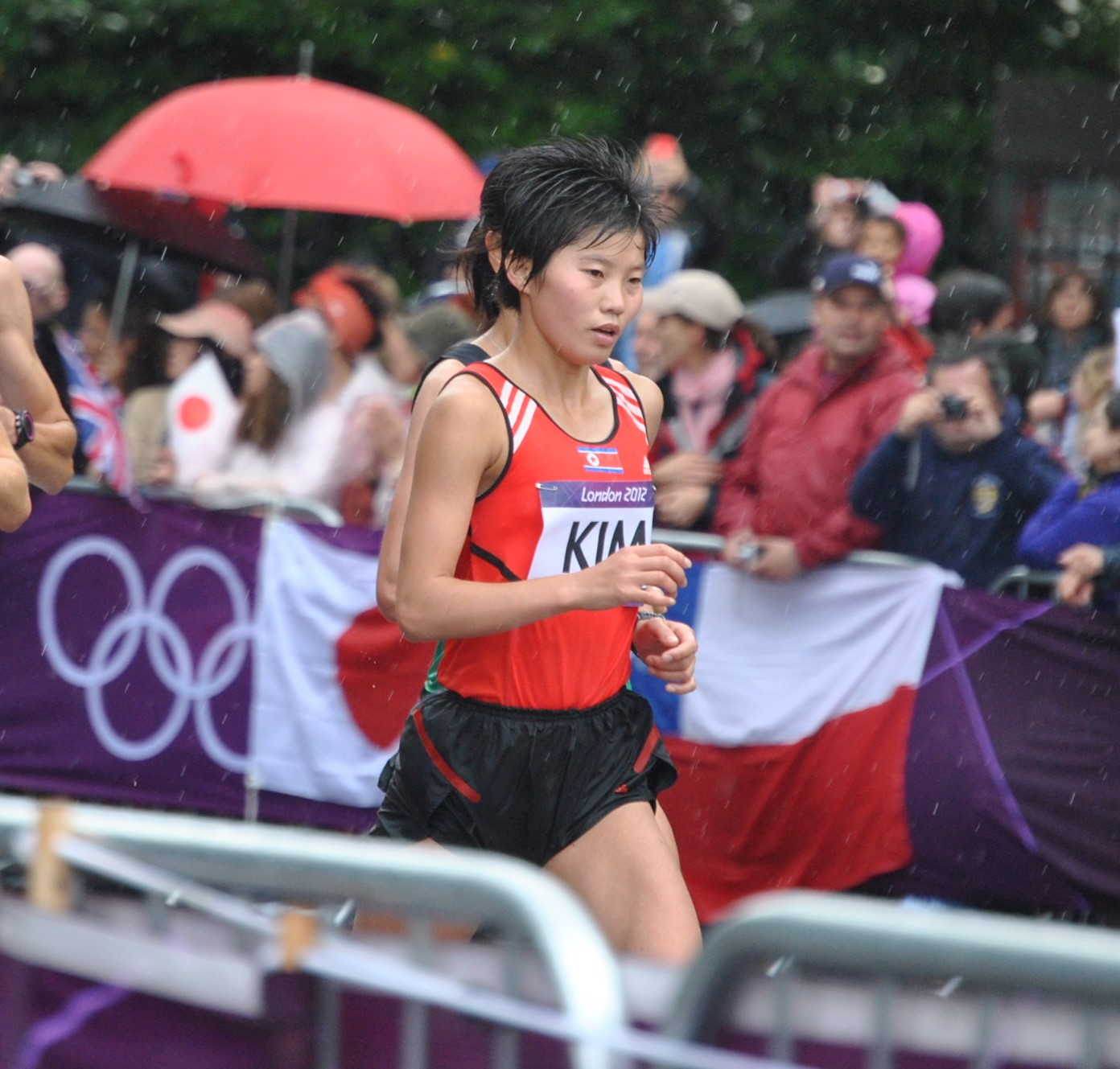 Kim Kum-ok competing at the 2012 London Olympics